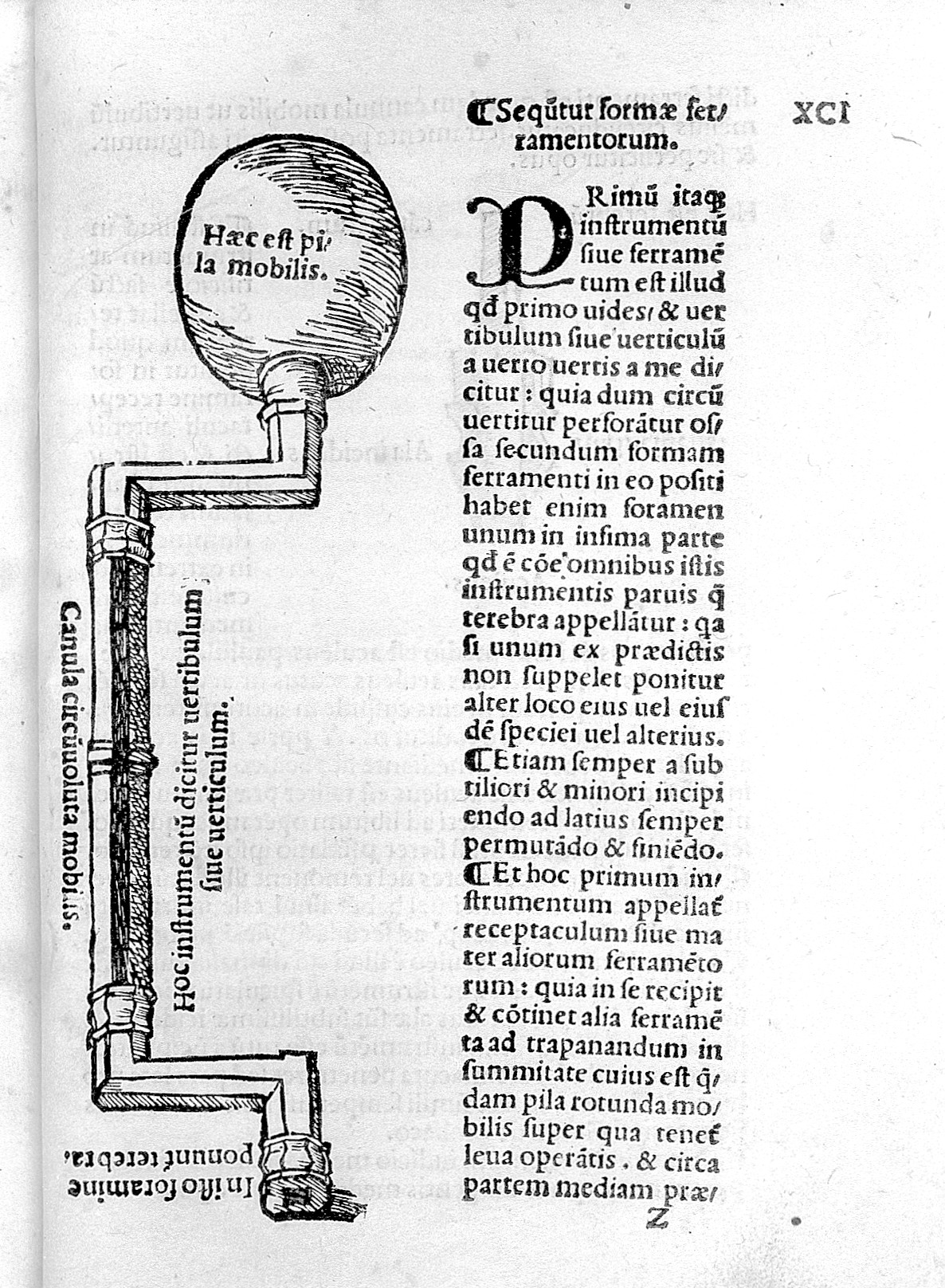 Page of text with illustration. Rare Books Keywords: Surgery